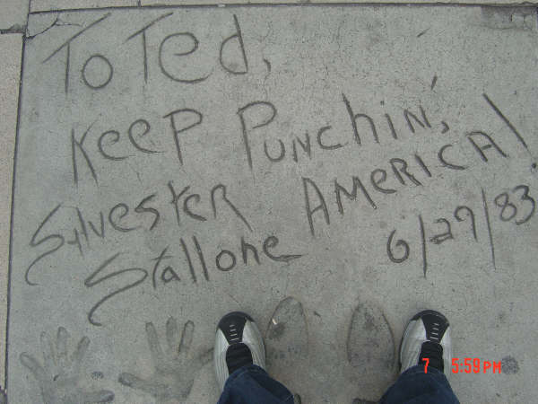 Sylvester Stallone - Hollywood My own picture - Gustavo Lens Minarelli The writing says: To Ted, Keep punchin', America! Sylvester Stallone 6/29/83